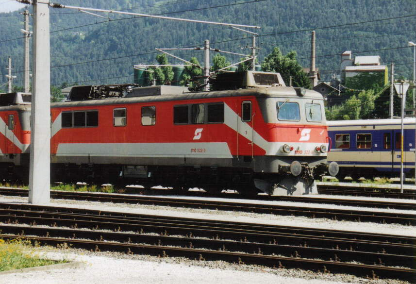 ÖBB 1110 522-8 in Bludenz, Austria